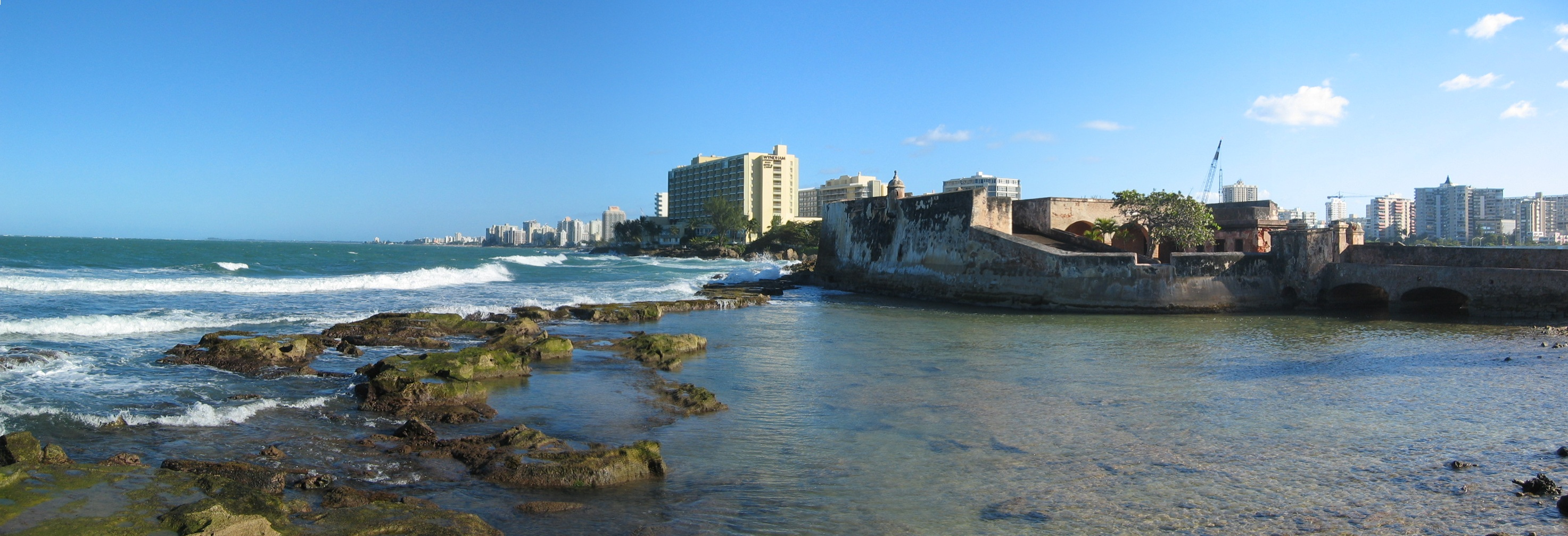 Panoramic picture of El Condado, Puerto Rico. Tagging GFDL: Likely taken by uploader, who has taken similar images (e.g. Image:Luis Munoz Rivera statue.jpg, Image:Old San Juan aerial.jpg and Image:Old san juan.jpg), and reluctant to tag until adviced to. Fred-Chess 22:04, 26 September 2005 (UTC)